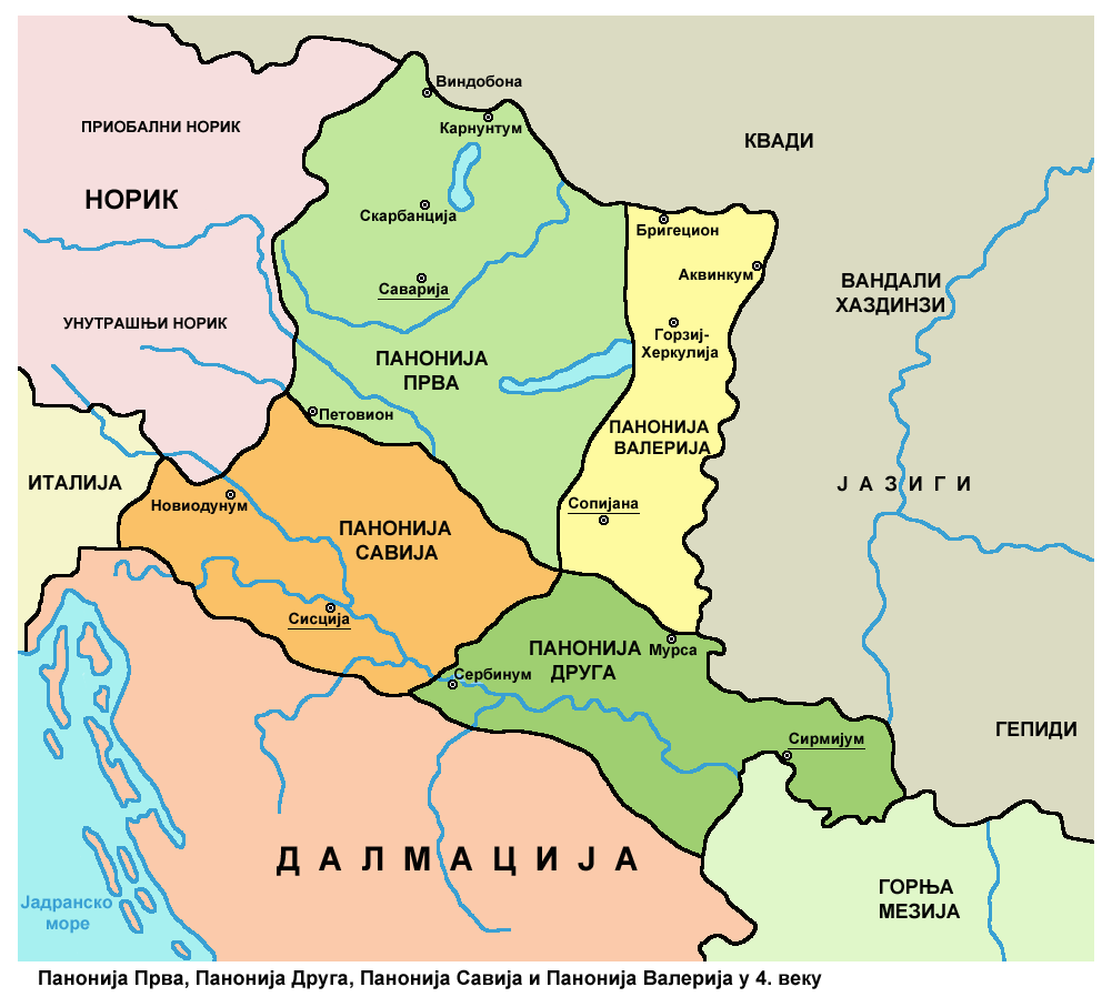 Pannonia Prima, Pannonia Secunda, Pannonia Savia and Pannonia Valeria in the 4th century.